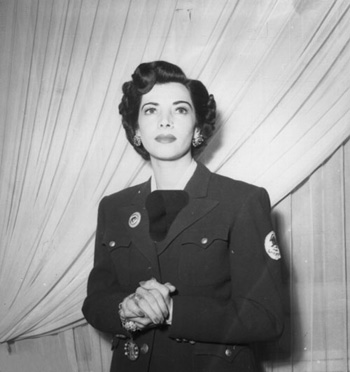 Shams Pahlavi